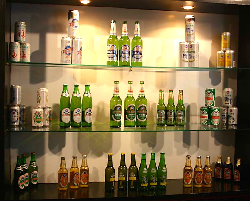 Some past packaging display at the Qingdao Beer Museum (Tsingtao Beer), taken 2004-10-03 by pratyeka.